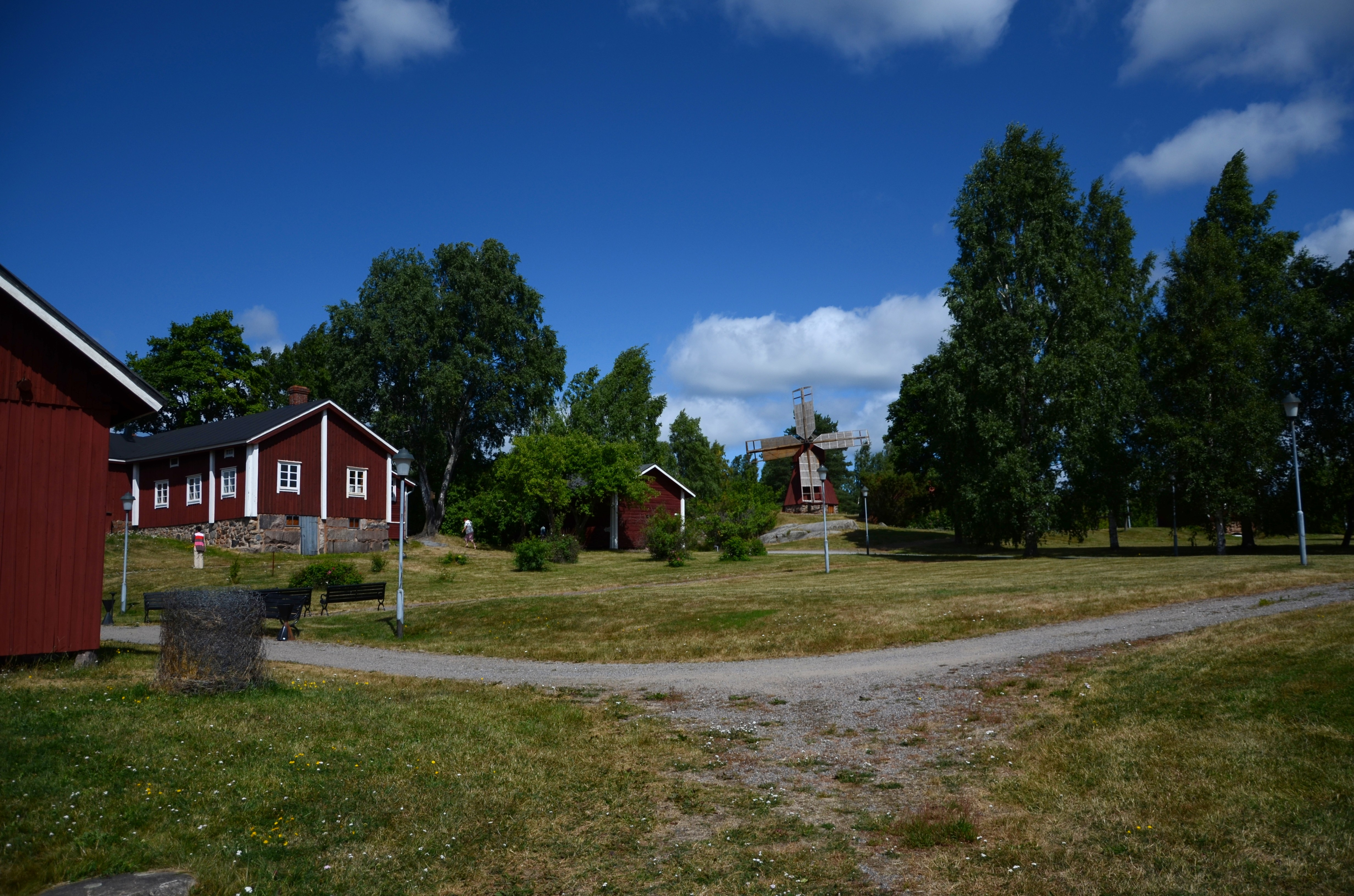 Yleiskuva Krookilan kotiseutukeskuksesta. Kuvassa tuulimylly ja rakennuksia.